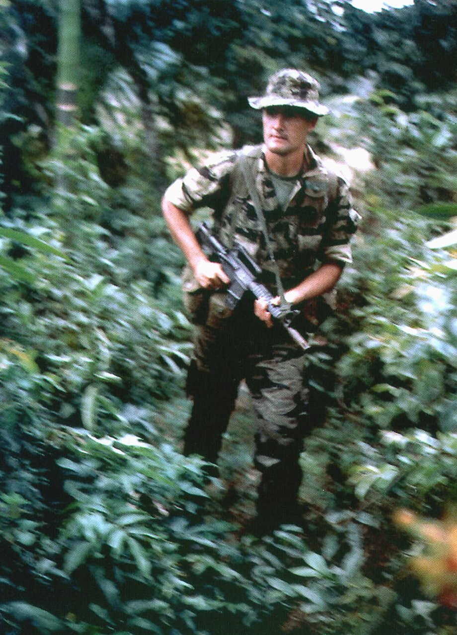 1st Lieutenant Henry Shelton on patrol along the Vietnamese border, 1967.